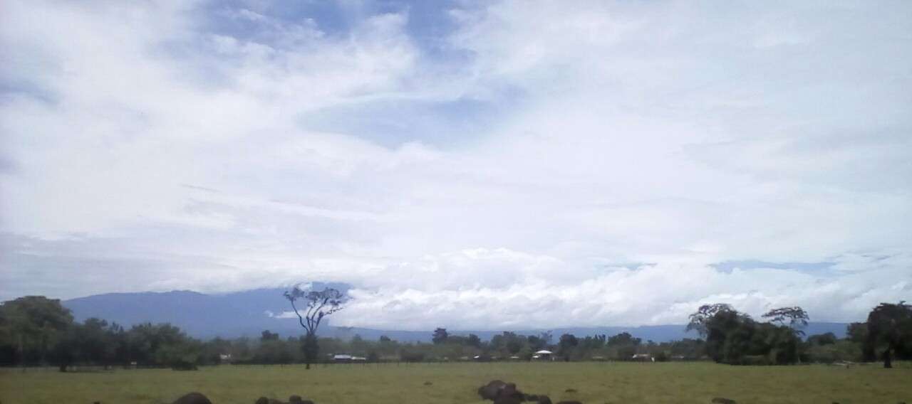 View to the south of the Roxana plains with the central volcanic mountain range in the background.